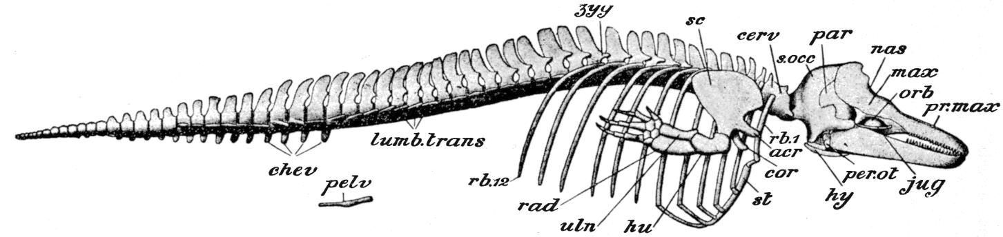 Fig. 183.—Skeleton of Porpoise (Phocoena communis), acr, Acromion process of scapula; cerv, united cervical vertebrae; chev, chevron bones; cor, coracoid process; hu, humerus; hy, hyoid; jug, jugal; lumb.trans, lumbar transverse processes; max, maxilla; nas, nasal; orb, orbit; par, parietal; pelv, vestige of pelvis; per.ot, periotic; pr.max, premaxilla; rad, radius; rb1, first rib; rb12, twelfth rib; sc, scapula; s.occ, supra-occipital; st, sternum; uln, ulna; zyg, prezygapophysis. (From Parker and Haswell's Zoology.) Now regarded as a synonym of Phocoena phocoena.